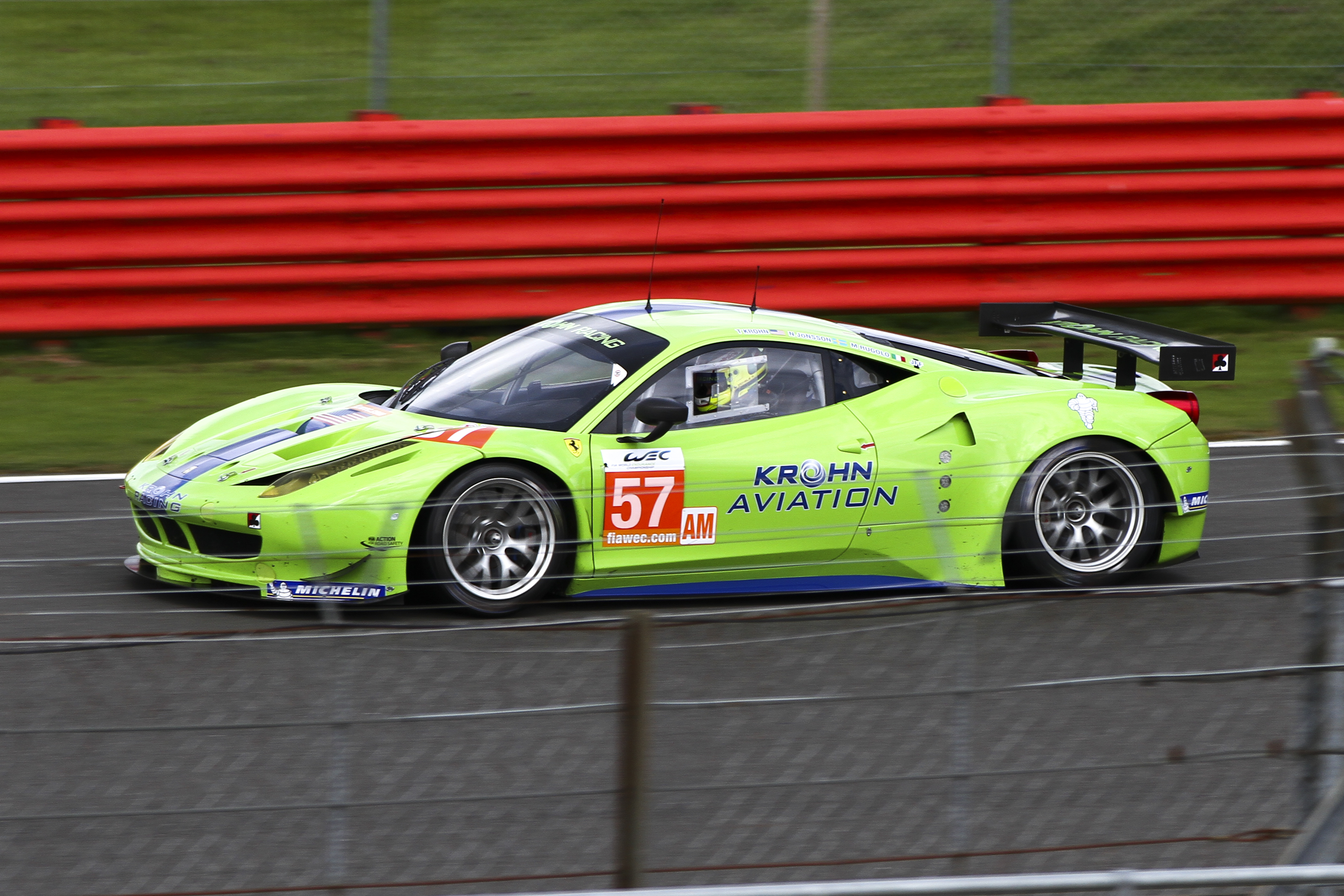 Michele Rugolo driving Krohn Racing's Ferrari 458 Italia GTC at the 2012 6 Hours of Silverstone